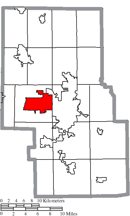 Map of the municipal and township boundaries of Richland County, Ohio, United States, as of the 2000 census, with the location of the city of Ontario highlighted. Township borders are shown only in unincorporated areas in order to differentiate incorporated and unincorporated areas more clearly.